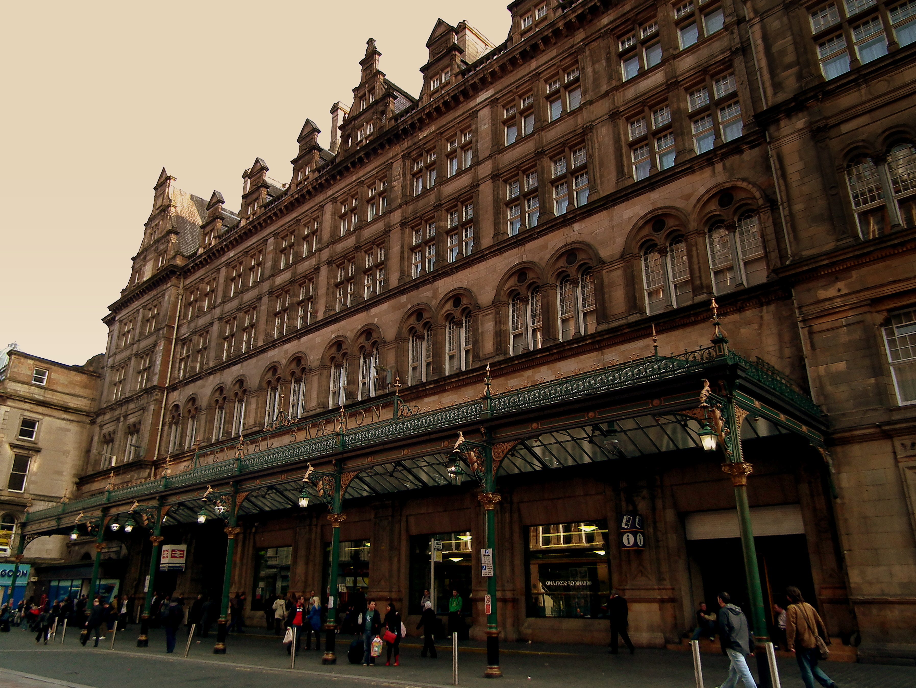 GLASGOW CENTRAL STATION SEP 2011